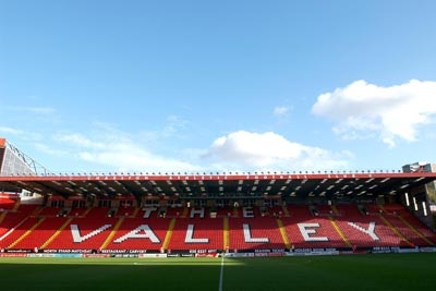 East Stand,The Valley (London)